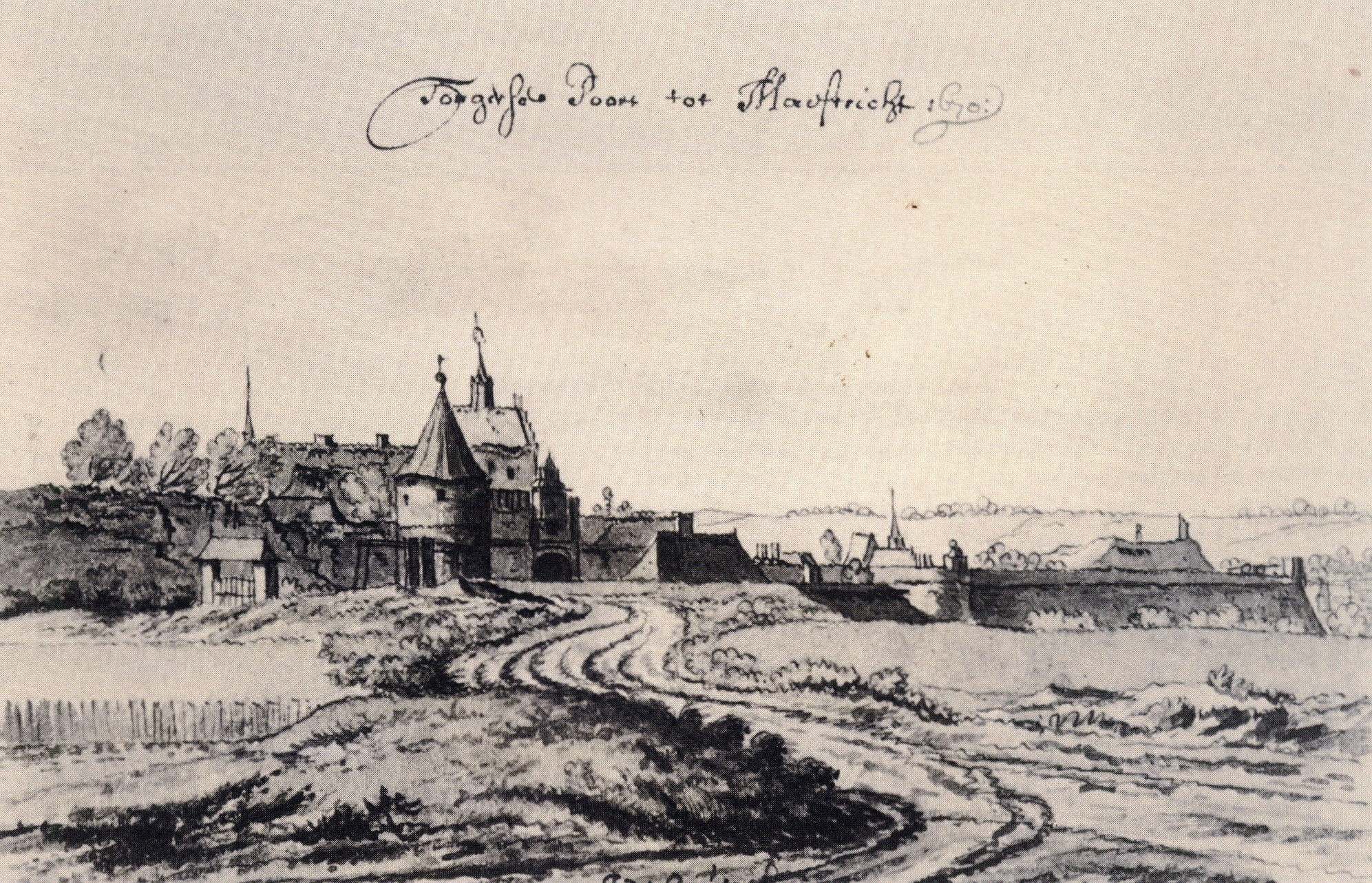 Maastricht, the Netherlands. View of the medieval city gate of Tongersepoort. Drawing by Josua de Grave, 1670, in the collection of the Kupferstichkabinett (SMPK), Berlin.